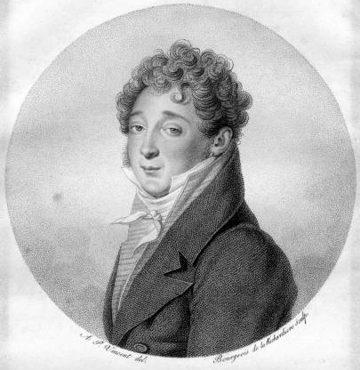 Swiss / French clarinetist and composer Jean-Xavier Lefèvre (1763-1829) by Antoine-Achille Bourgeois de La Richardière (1777-18??) after Antoine-Paul Vincent (17??-18??).